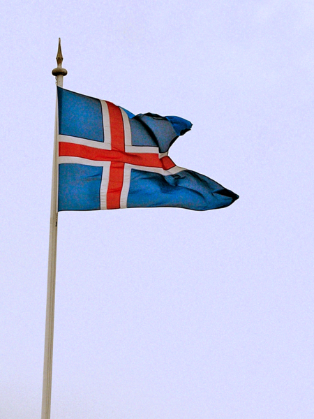 State Flag of Iceland (Tjugufani)